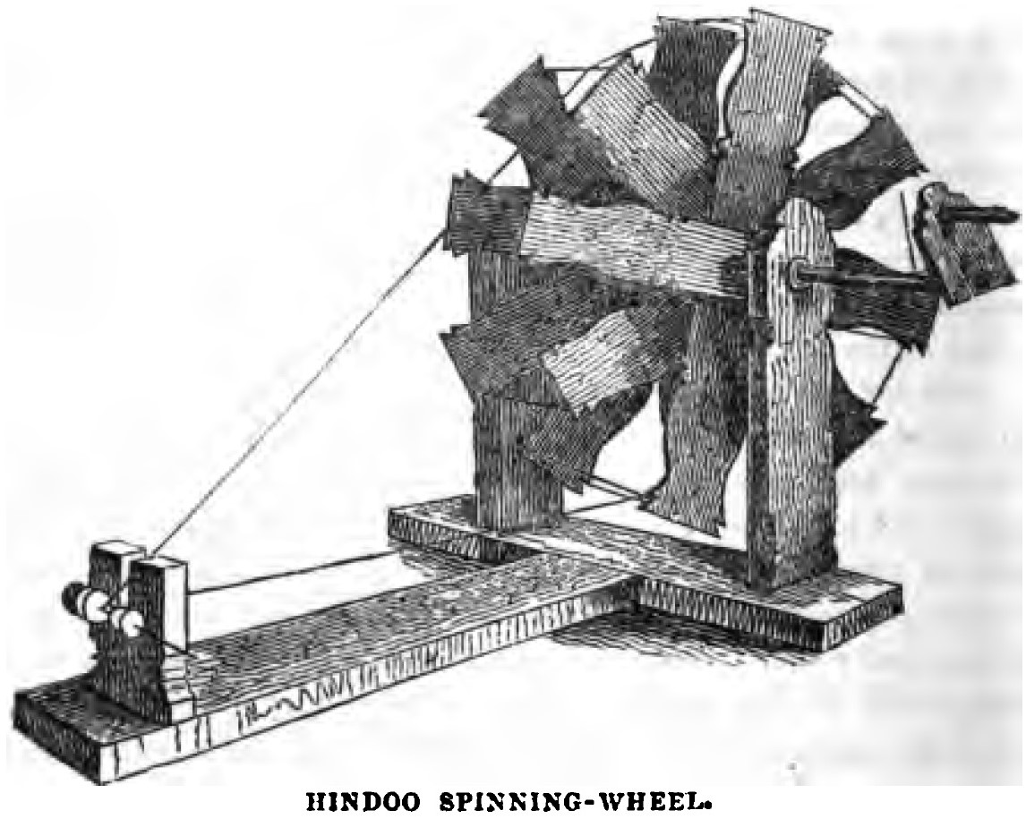 Hindoo Spinning-Wheel (September 1852, p.108, IX)